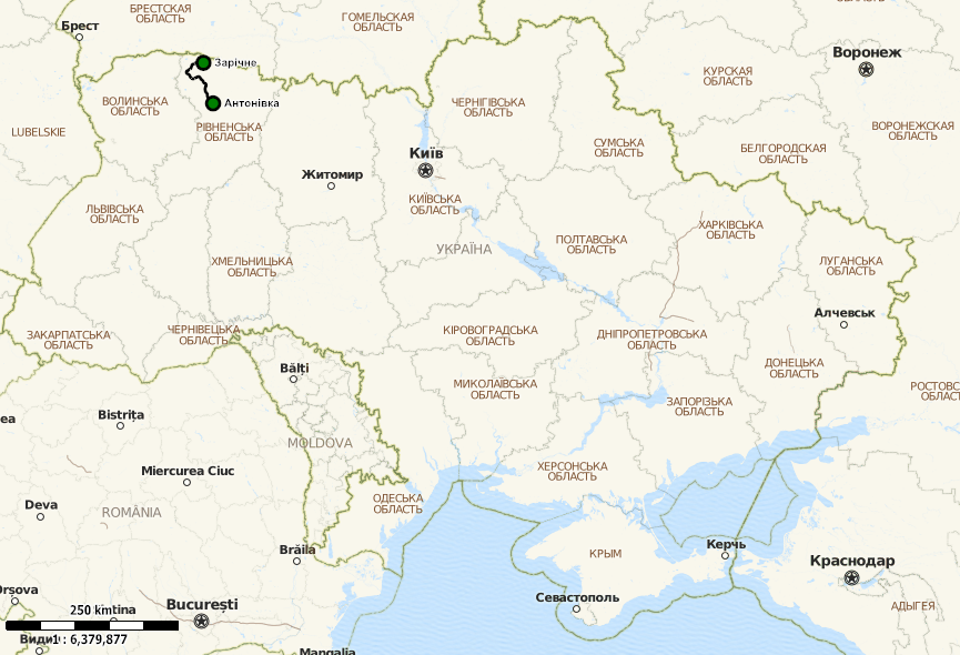 Narrow gauge railway Antonowka - Zarechnoye on map of Ukraine.